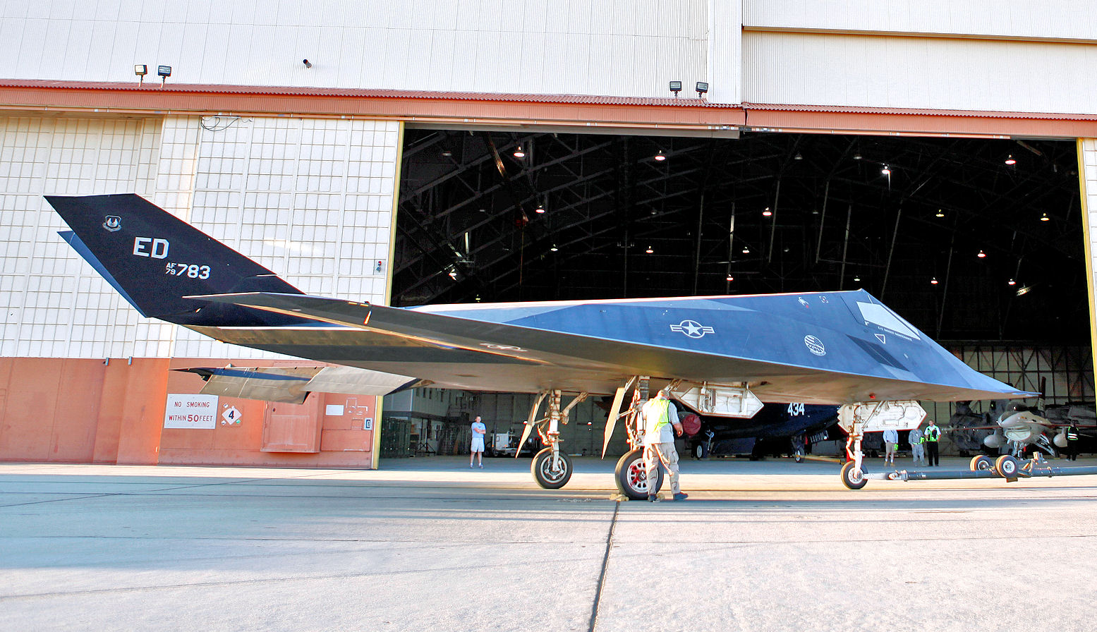 410th Flight Test Squadron - Lockheed F-117A Nighthawk 79-10783 will be stored in Hangar 1210 while it is refurbished for display at the AFFTC Museum. The jet was transported to Edwards June 8 early in the morning to be dressed up for viewing at the museum. (U.S. Air Force photo by Jet Fabara)